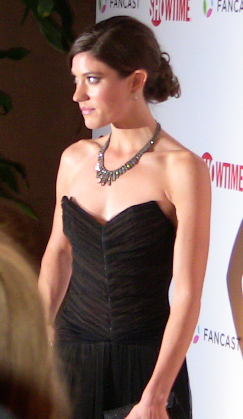 Jennifer Carpenter at the Showtime Golden Globes Party, The Peninsula Hotel, Beverly Hills, Calif. - Jan. 11, 2009